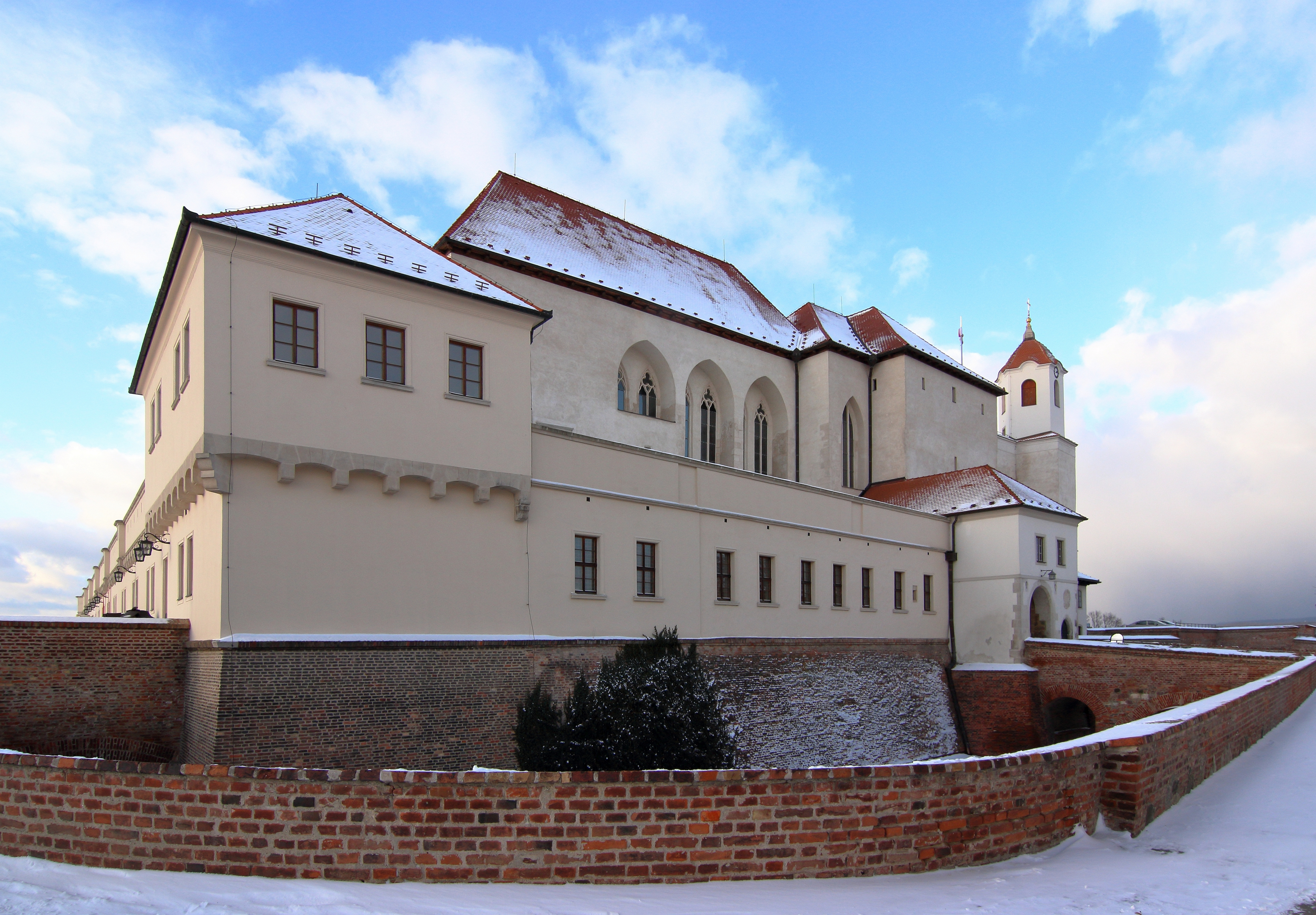 Špilberk Castle